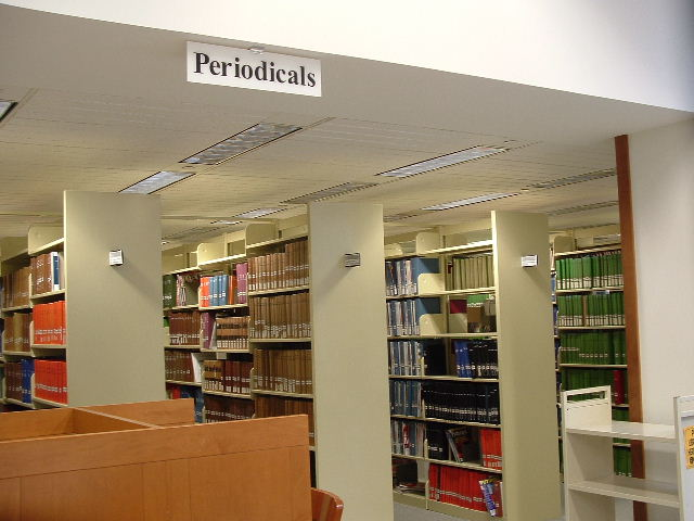 Library shelves full of academic journals, labeled "Periodicals"